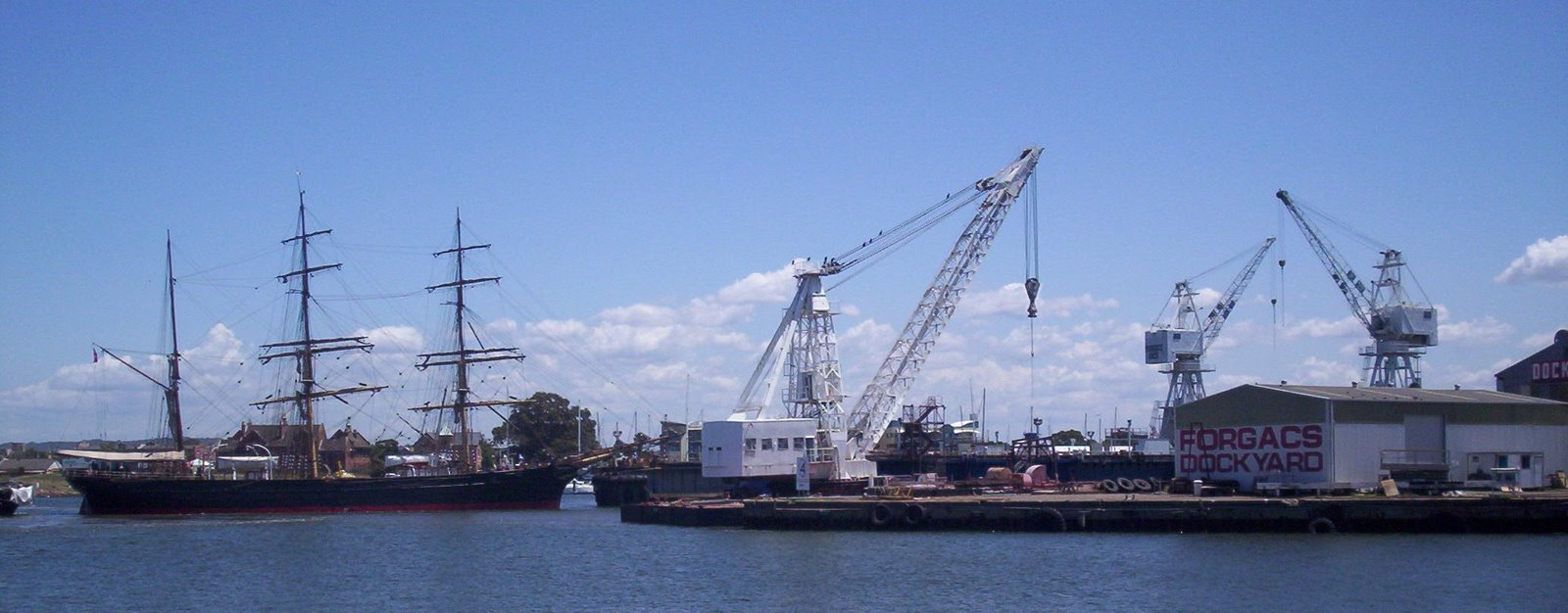 The James Craig leaving Forgacs Dockyard 19/02/07. Photograph by John Valentine